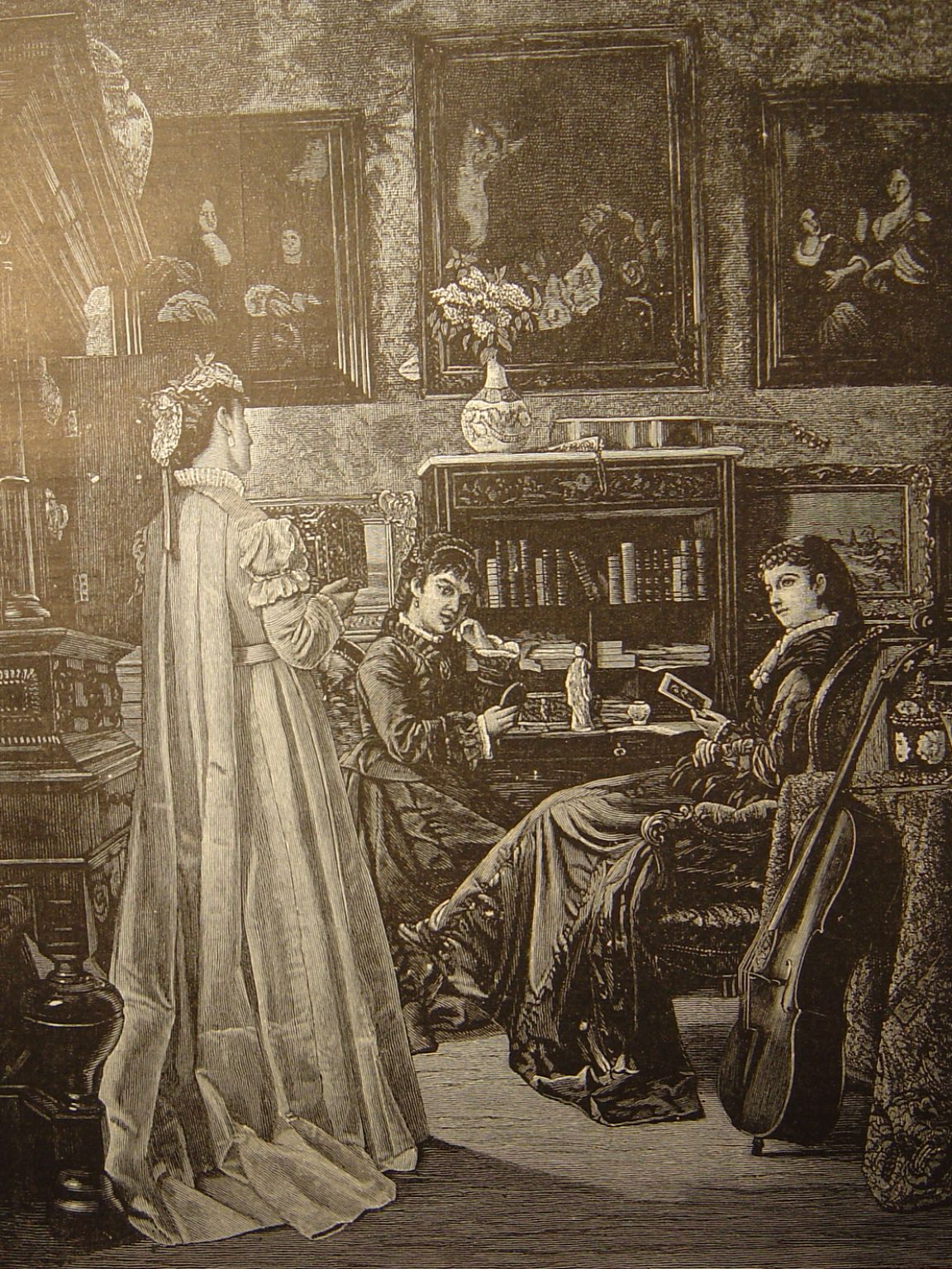 New Year's gifts